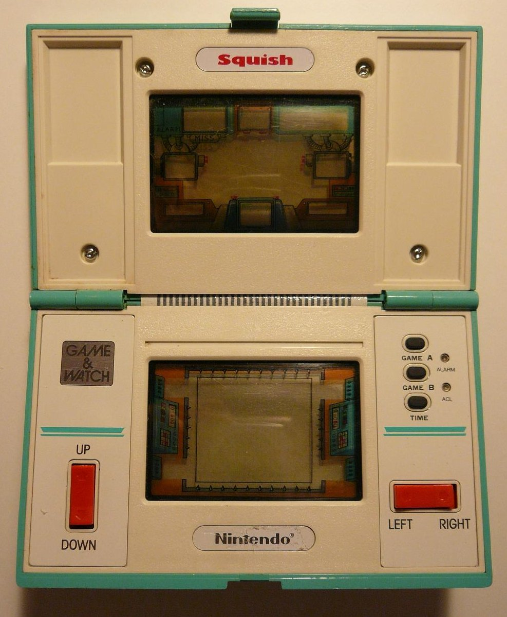 Squish - Game&Watch - Nintendo